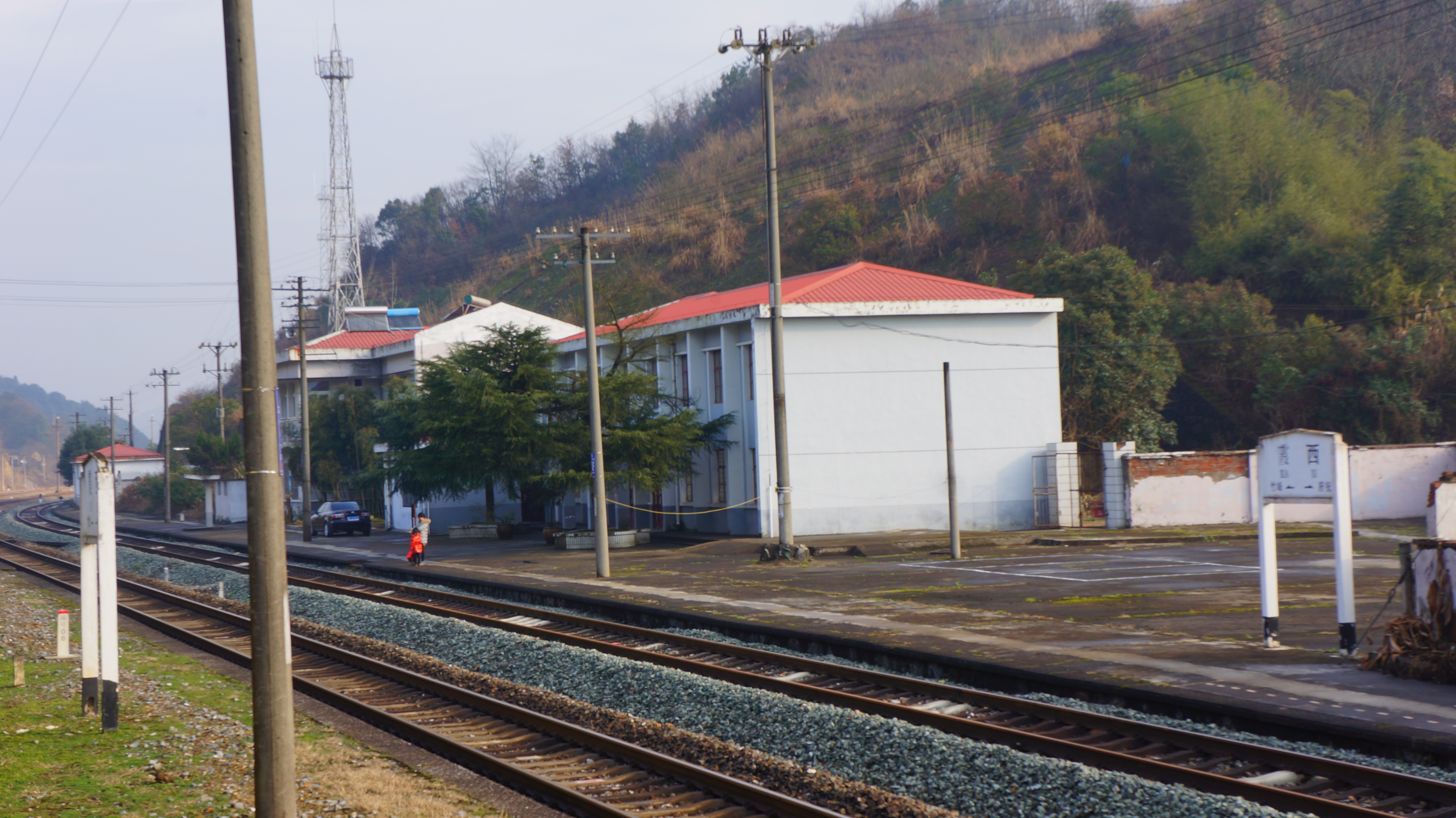 201601 Xiaxi Railway Station